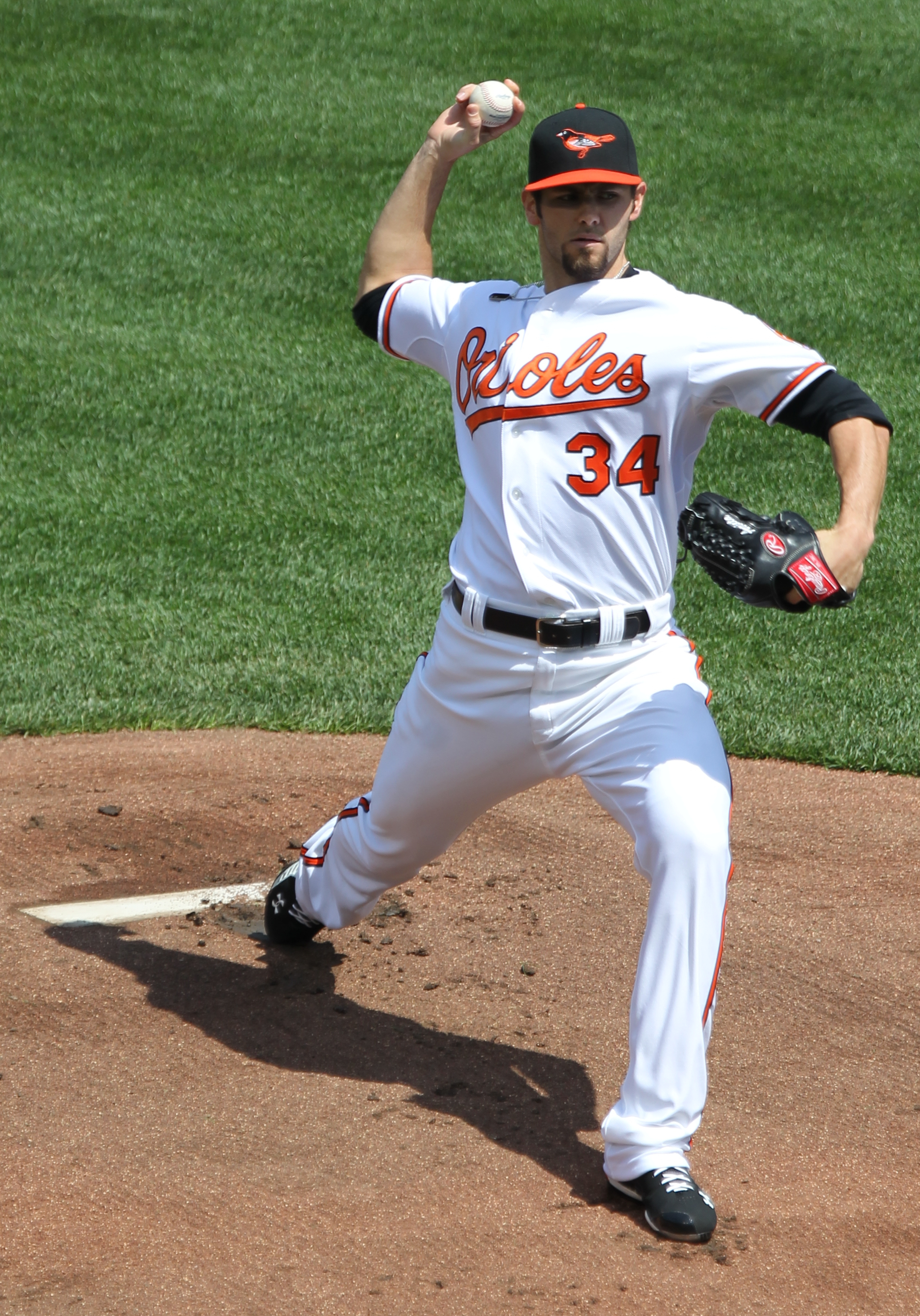 New York Yankees at Baltimore Orioles April 24, 2011